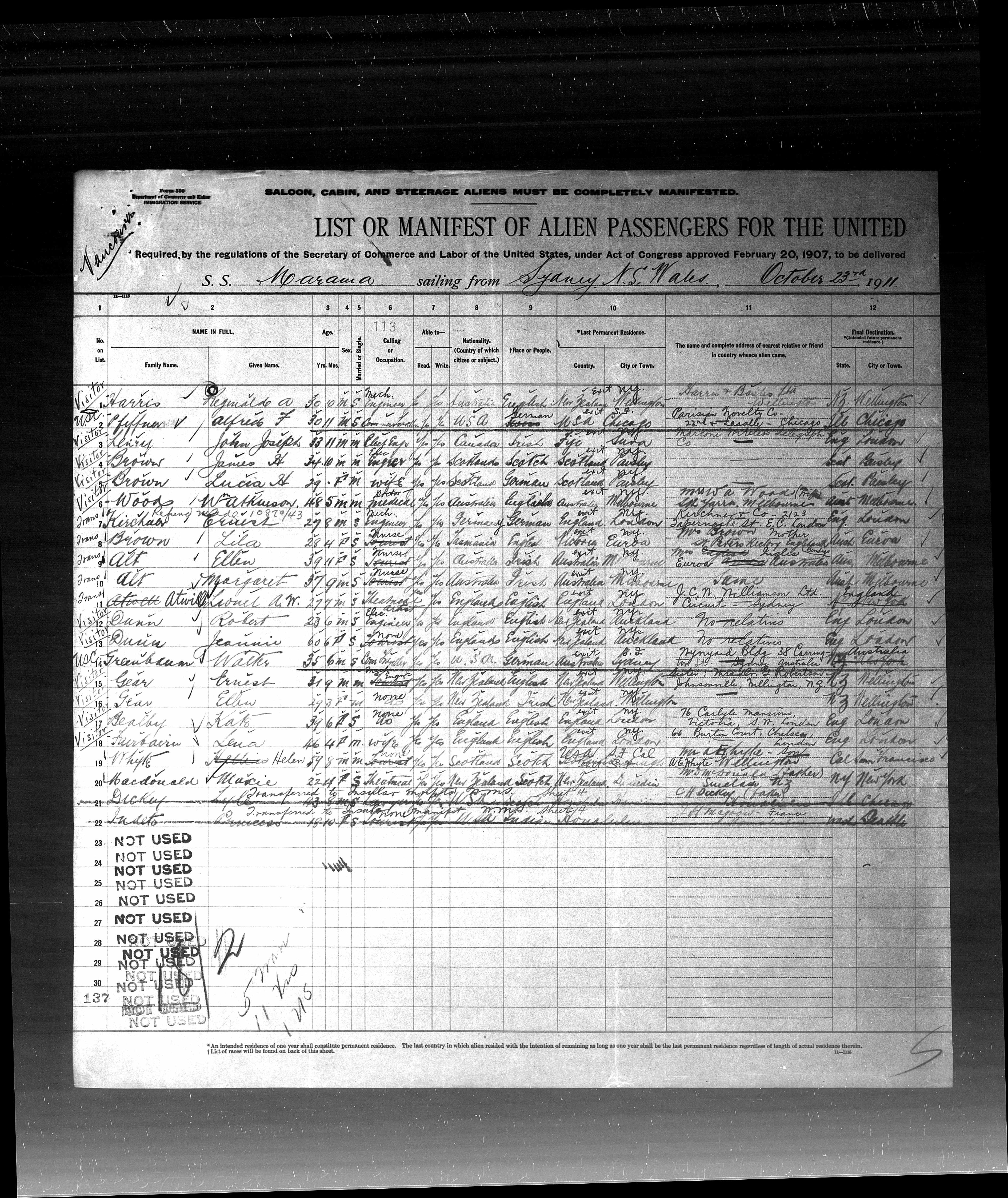 1911 passenger list indicating where Atwell's original surname was crossed out and replaced by Atwill.